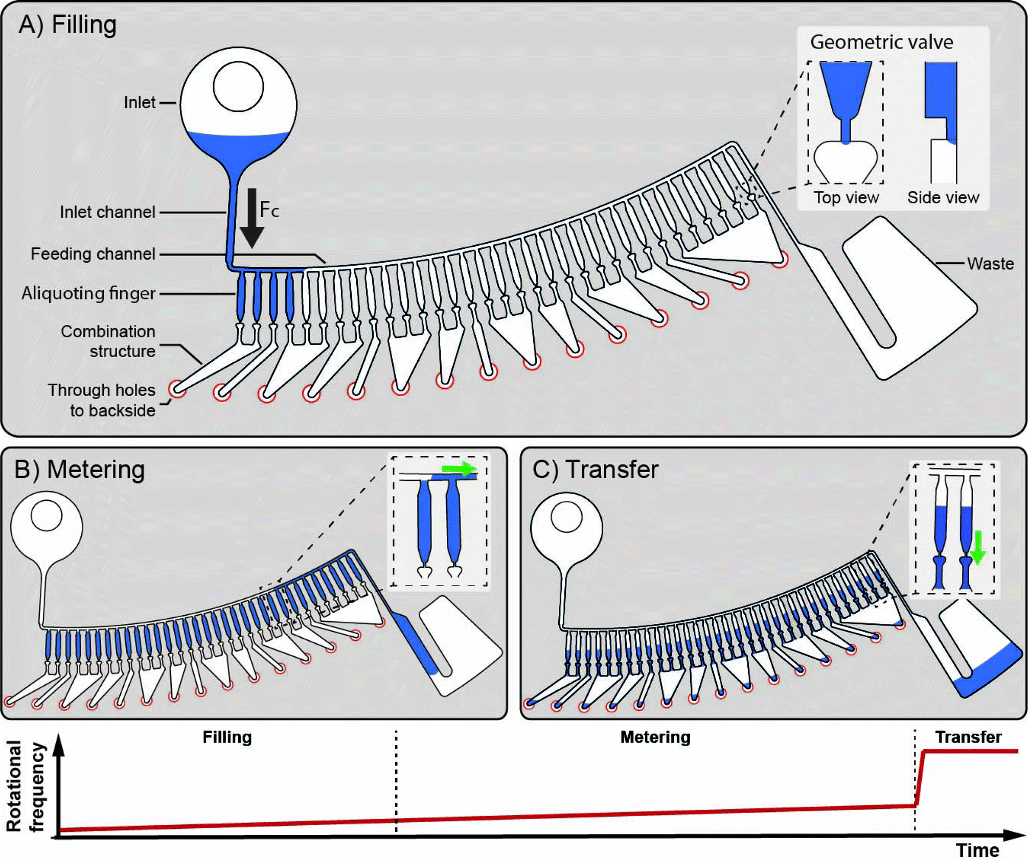 Aliquoting principle. During filling the rotational frequency is slowly ramped up from 10 Hz to 30 Hz. When liquid from the inlet fills the inlet channel, the aliquoting fingers having 40 nl volume each are sequentially filled via the feeding channel and excess liquid is transported to the waste (A). All extra liquid above the metering fingers is transported to the waste due to the radial extension of the feeding channel (B). By ramping up the rotational frequency to 150 Hz a certain number of the 40 nl aliquots is merged to create multiples of 40 nl volumes and transferred to the mixing and read-out chambers (C). The aliquoting structures for protein solution, screening agent and buffer aliquoting contain 33 aliquots, 36 aliquots and 51 aliquots, respectively.